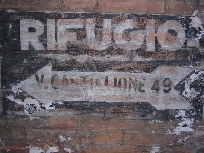 Bologna, Italy. During the Second WW the city was heavily bombed. Today it is still possible to find on the walls indications to reach the closest shelter.